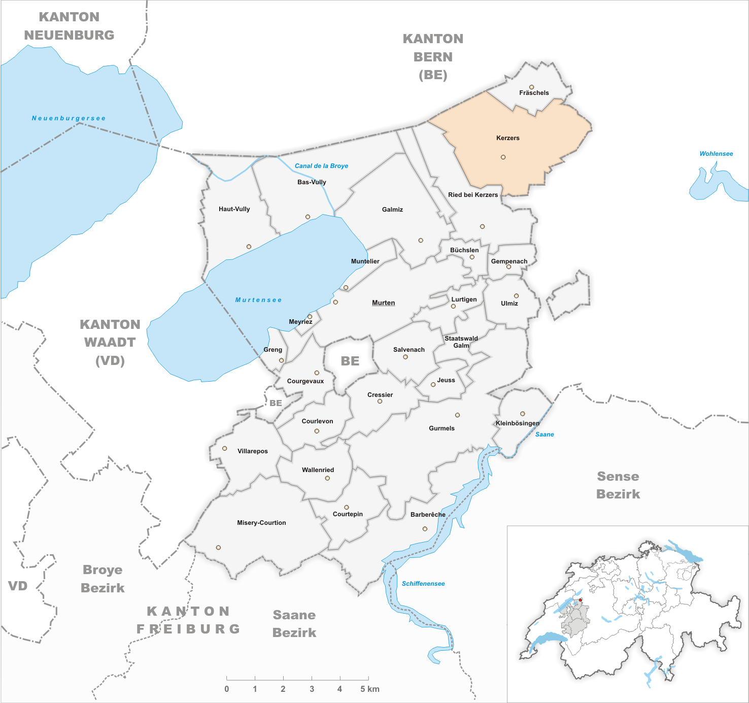 Municipality Kerzers